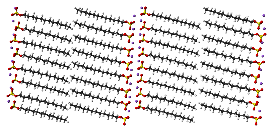 Ball-and-stick model of part of the crystal structure of sodium dodecyl sulfate, Na[C12H25SO4]. Structural data from L. A. Smith, R. B. Hammond, K. J. Roberts, D. Machin, G. McLeod (November 2000). "Determination of the crystal structure of anhydrous sodium dodecyl sulphate using a combination of synchrotron radiation powder diffraction and molecular modelling techniques". Journal of Molecular Structure 554 (2-3): 173-182.